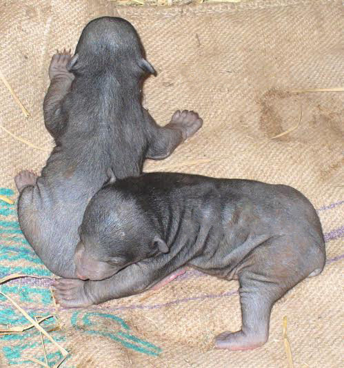 Sloth bear cubs 7days old, before rescuing from a half built house where they born